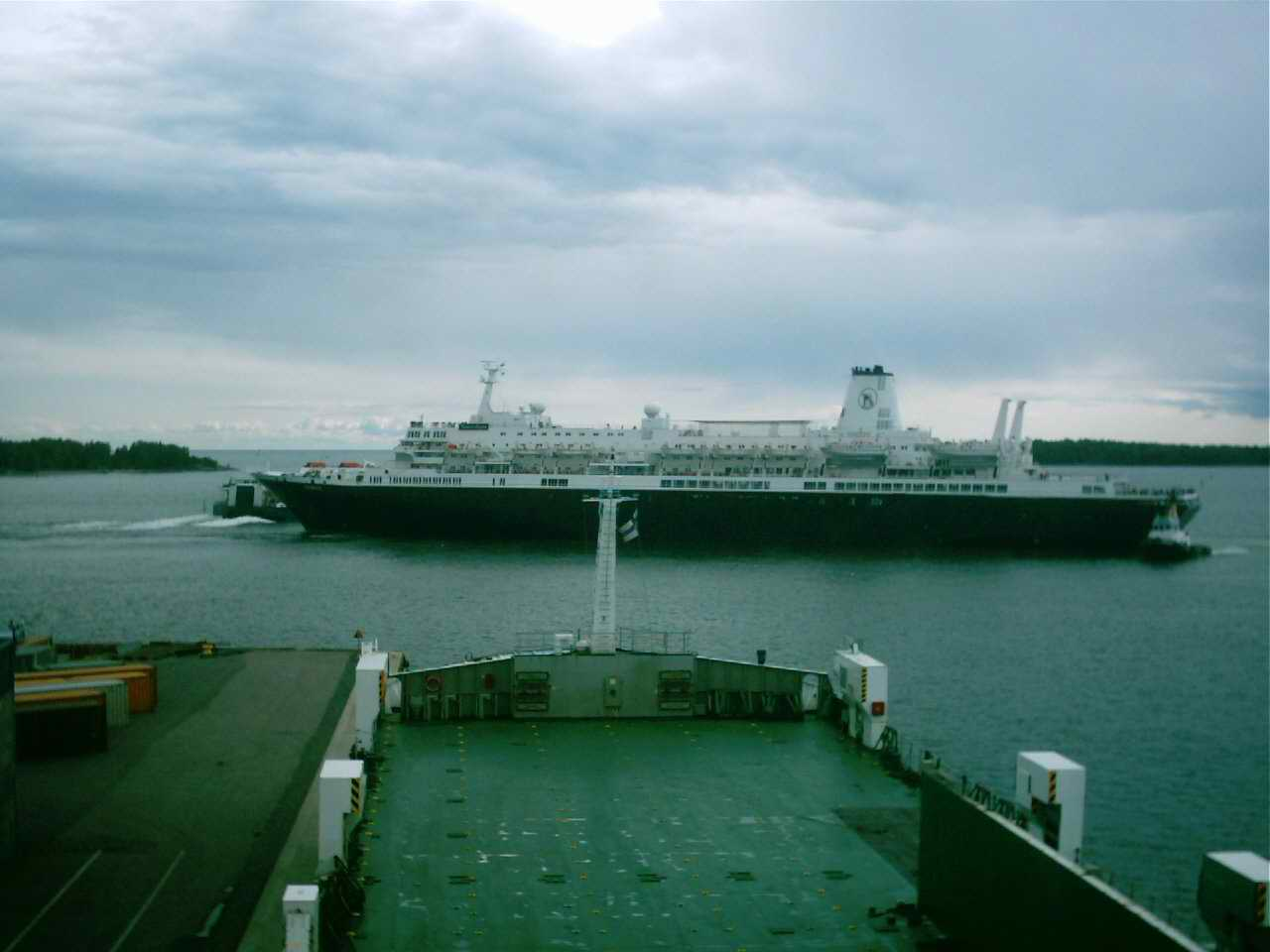 Third Noordam (year of build 1984) in Länsisatama, Helsinki 16 June 2003 (view from Lembitu)